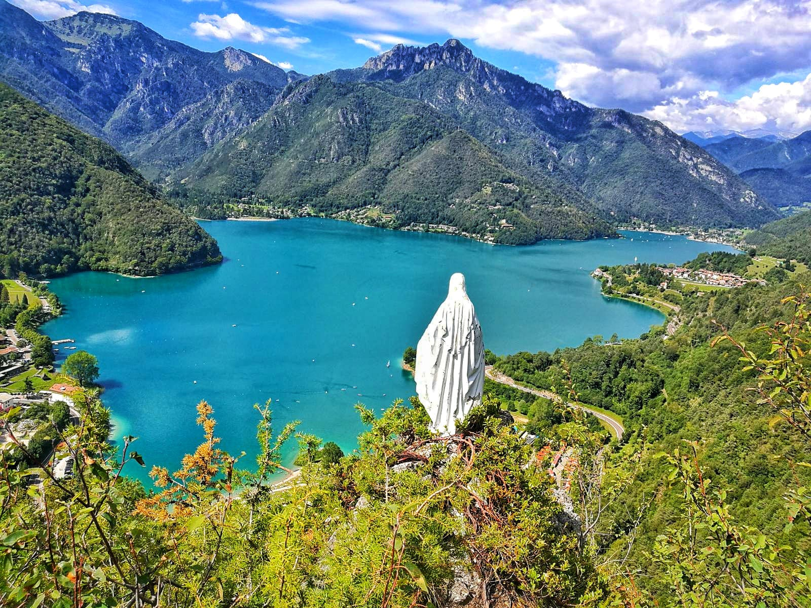 View over Lake Ledro (Trentino) from the Madonna of Besta.